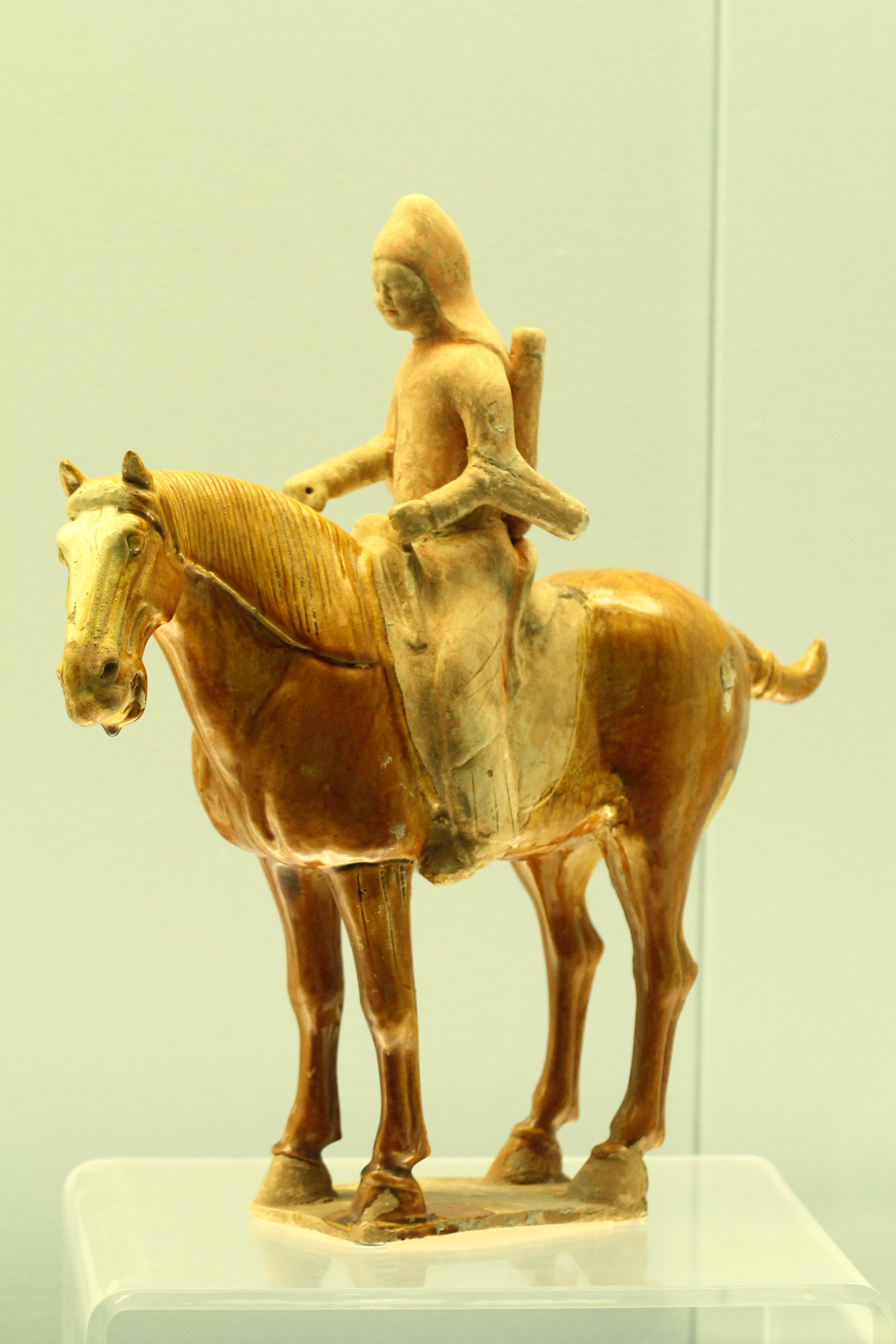 Polychrome glazed pottery figurine of equestrienne. Tang. A.D. 618-907.